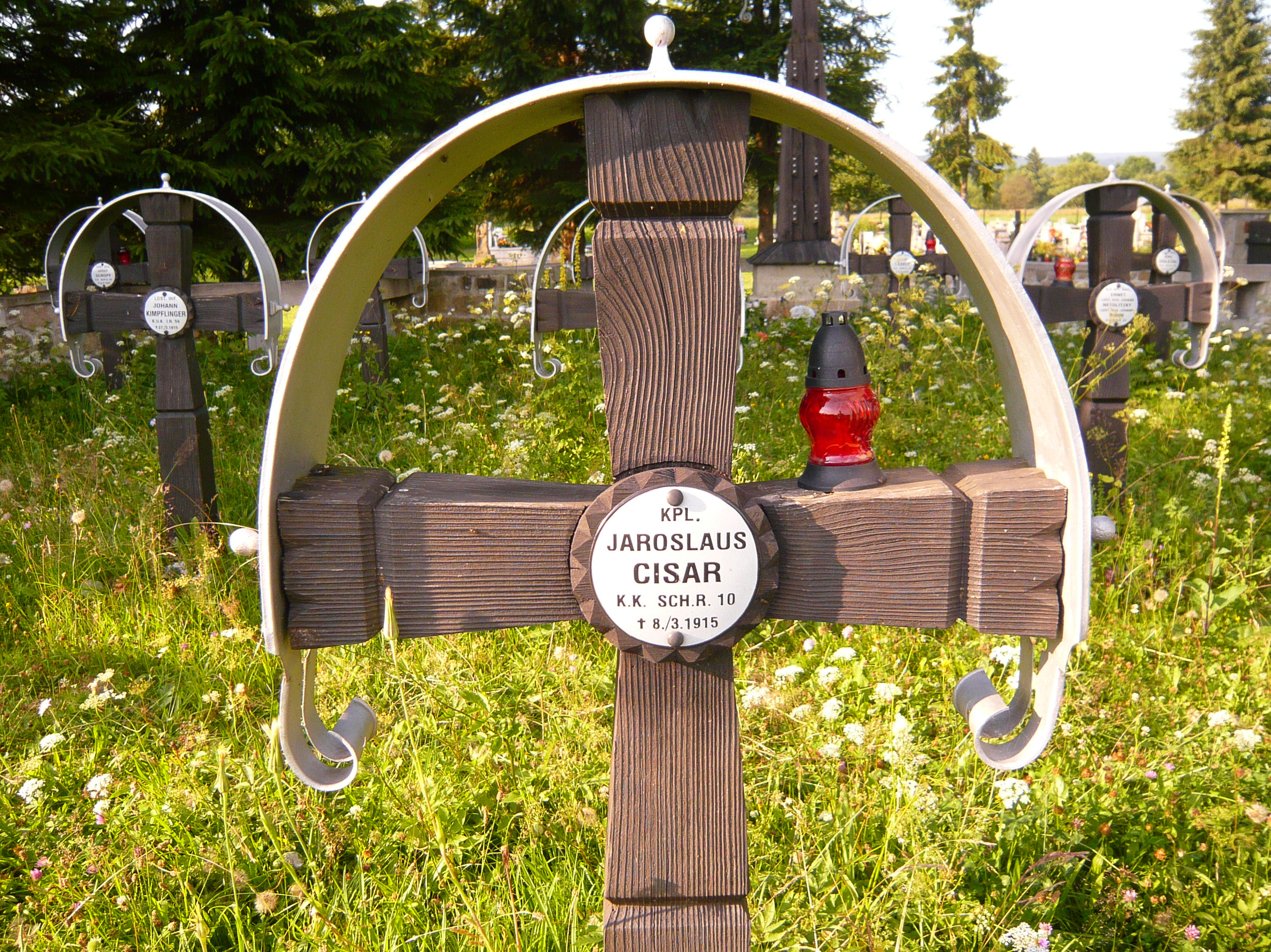 World War I Cemetery nr 56 in Smerekowiec